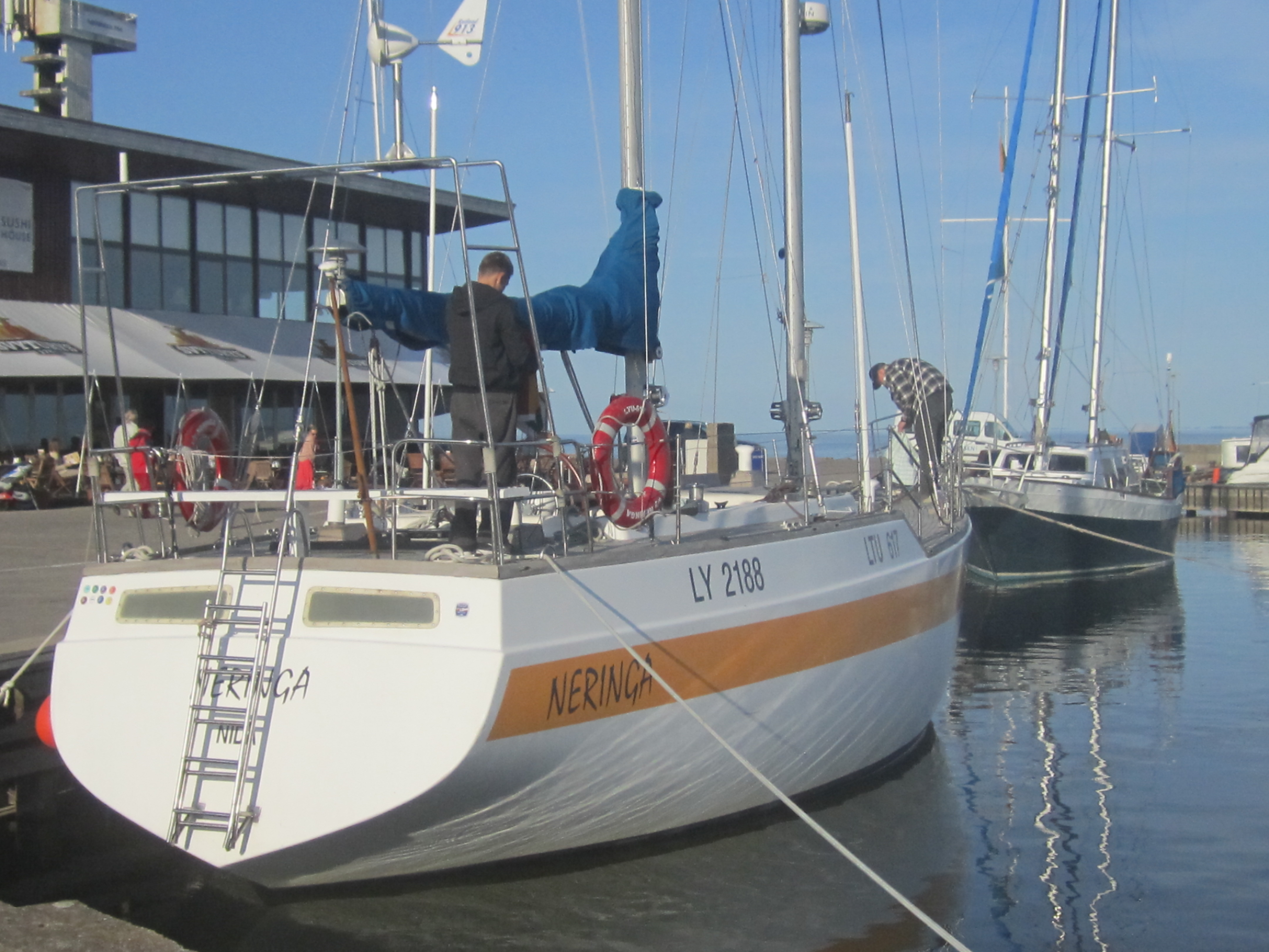 Nida yacht club